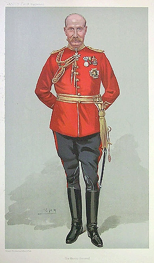 Caricature of Major-General Sir James Murray. Caption read "The Master General".